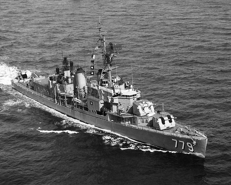 The U.S. Navy destroyer USS Douglas H. Fox (DD-779) underway following her FRAM II modernization. Douglas H. Fox was modernized at the Norfolk Naval Shipyard, Virginia (USA), in 1962 and decommissioned on 15 December 1973. Three weeks later, she was transferred to Chile.